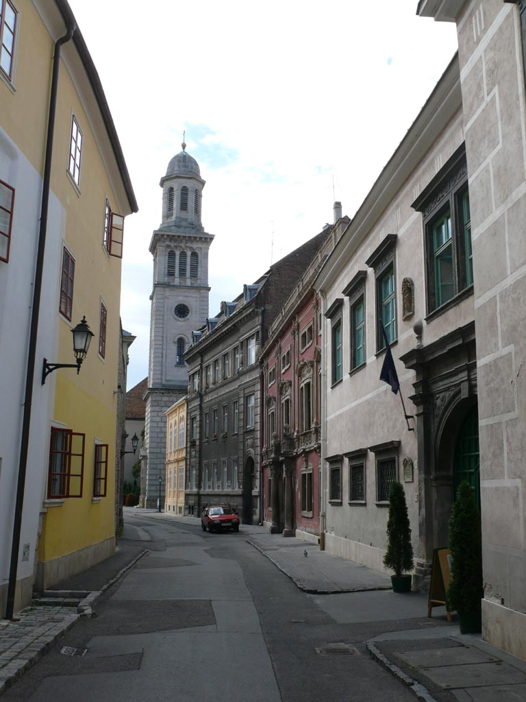 Templom utca with the tower of the lutheran church